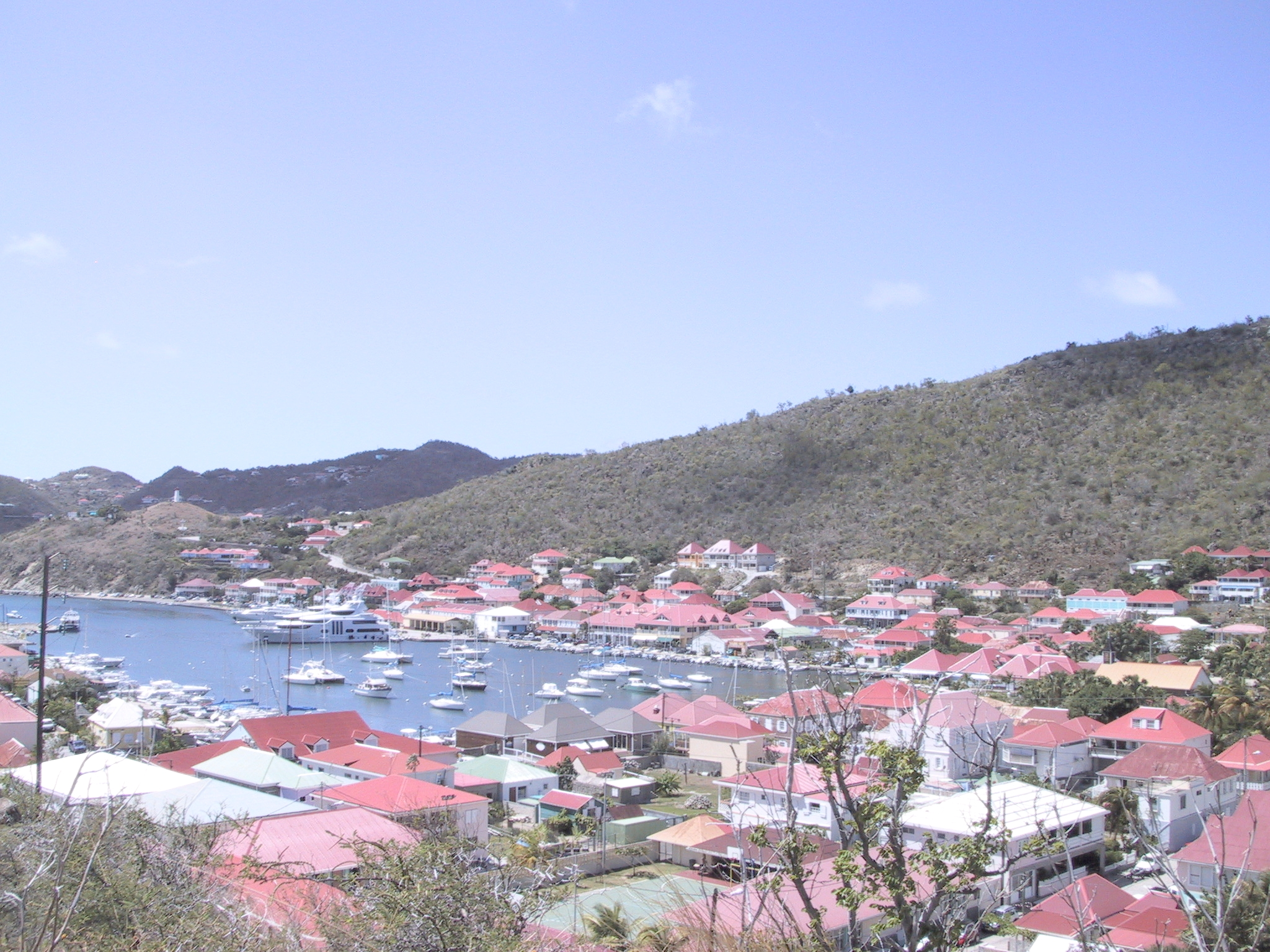 Gustavia, Saint-Barthélemy